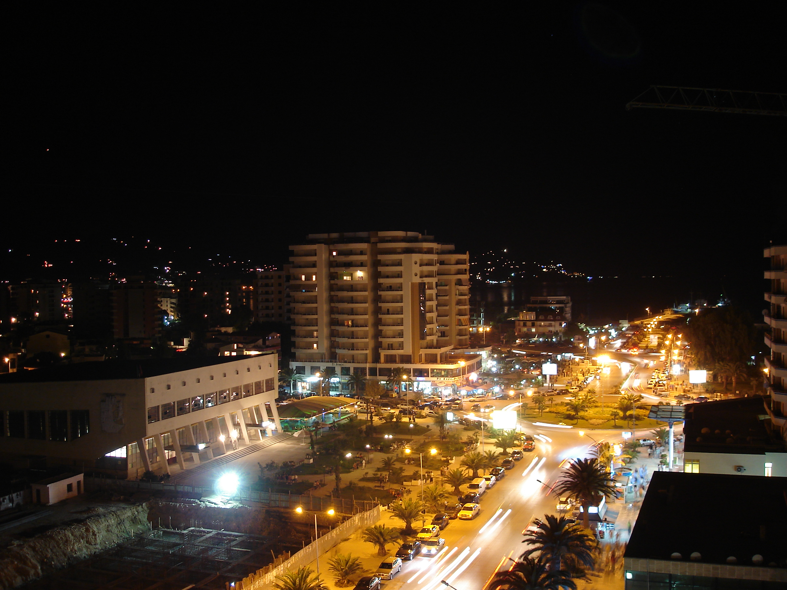 Downtown Vlore at Night